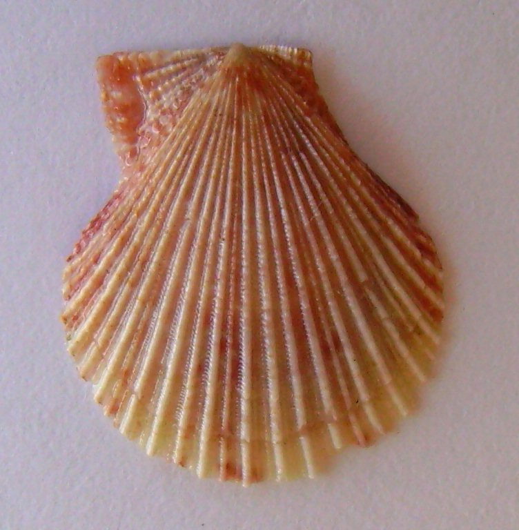 Talochlamys zelandiae (New Zealand fan shell) dredged from the east coast of Northland , New Zealand. (Genus now updated from Chlamys to Talochlamys.) This work has been released into the public domain by its author, Graham Bould. This applies worldwide.In some countries this may not be legally possible; if so:Graham Bould grants anyone the right to use this work for any purpose, without any conditions, unless such conditions are required by law.